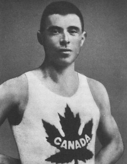 Edouard Fabre, athlet and winner of the 1915 Boston Marathon photography, adapted reproduction, no restrictions on use Copyright: free of charges